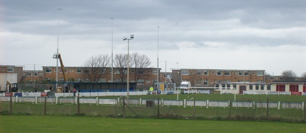 ptfc floodlights